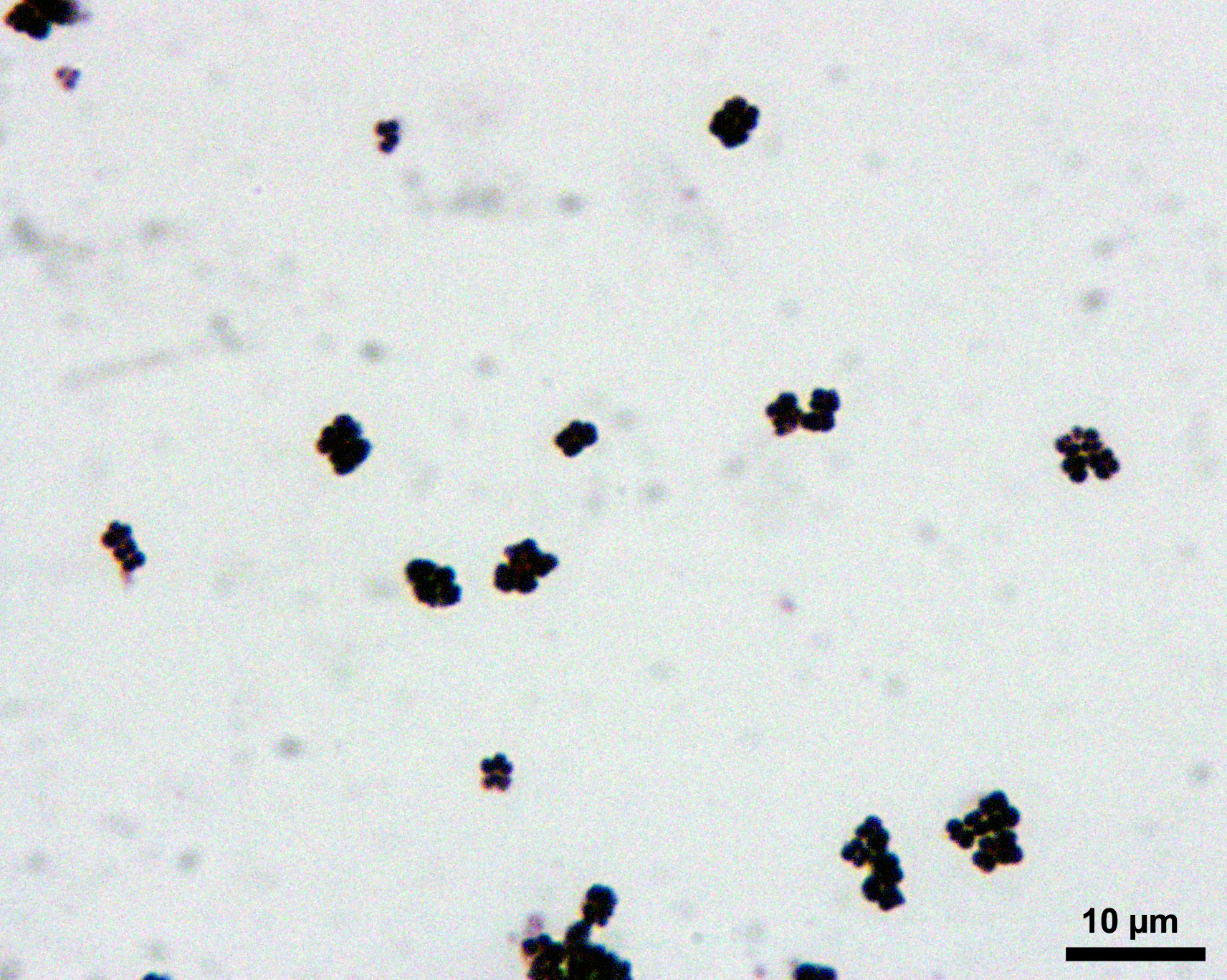 Micrococcus luteus Gram stain